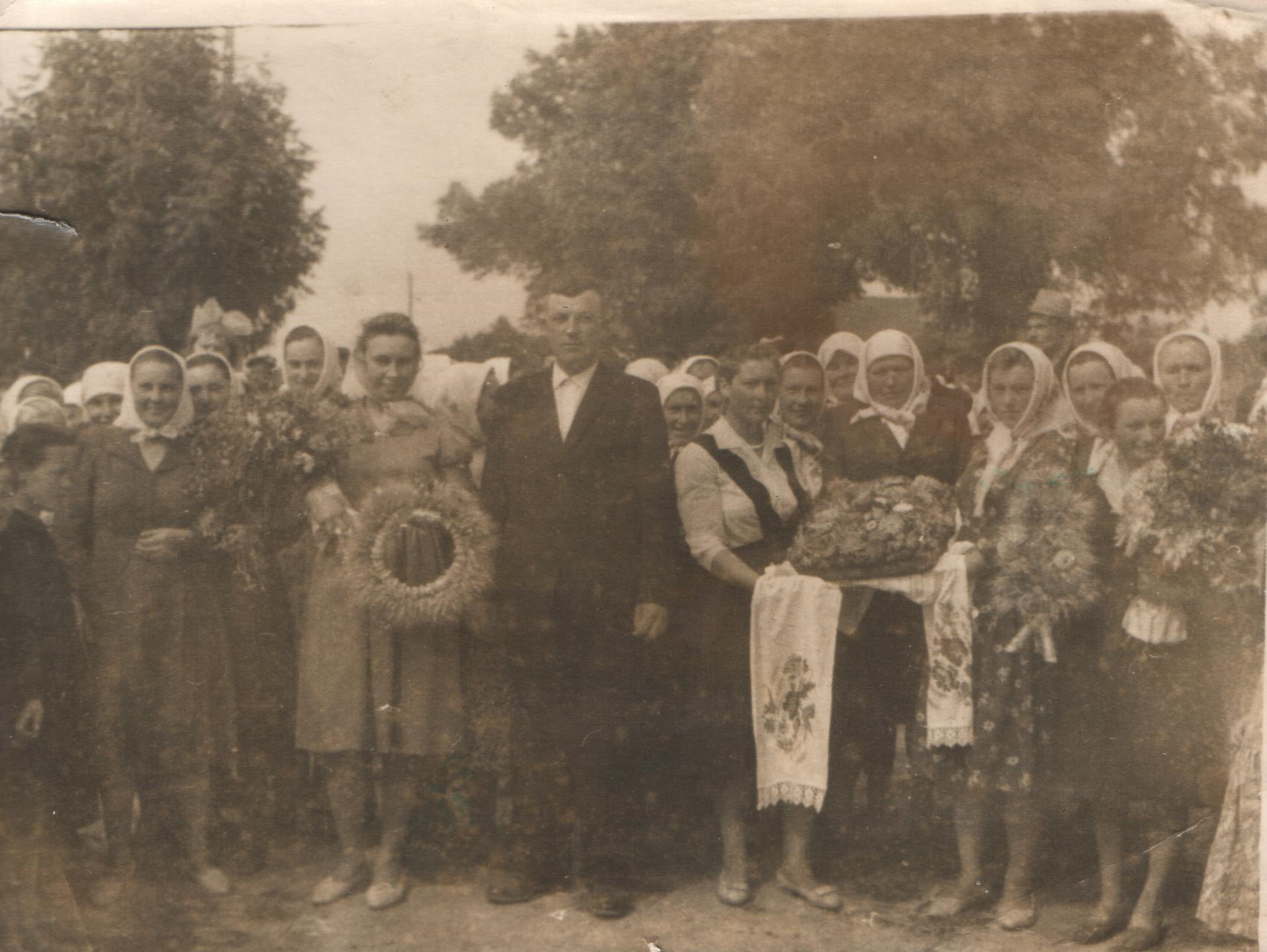 Свято жнив (1964 рік)